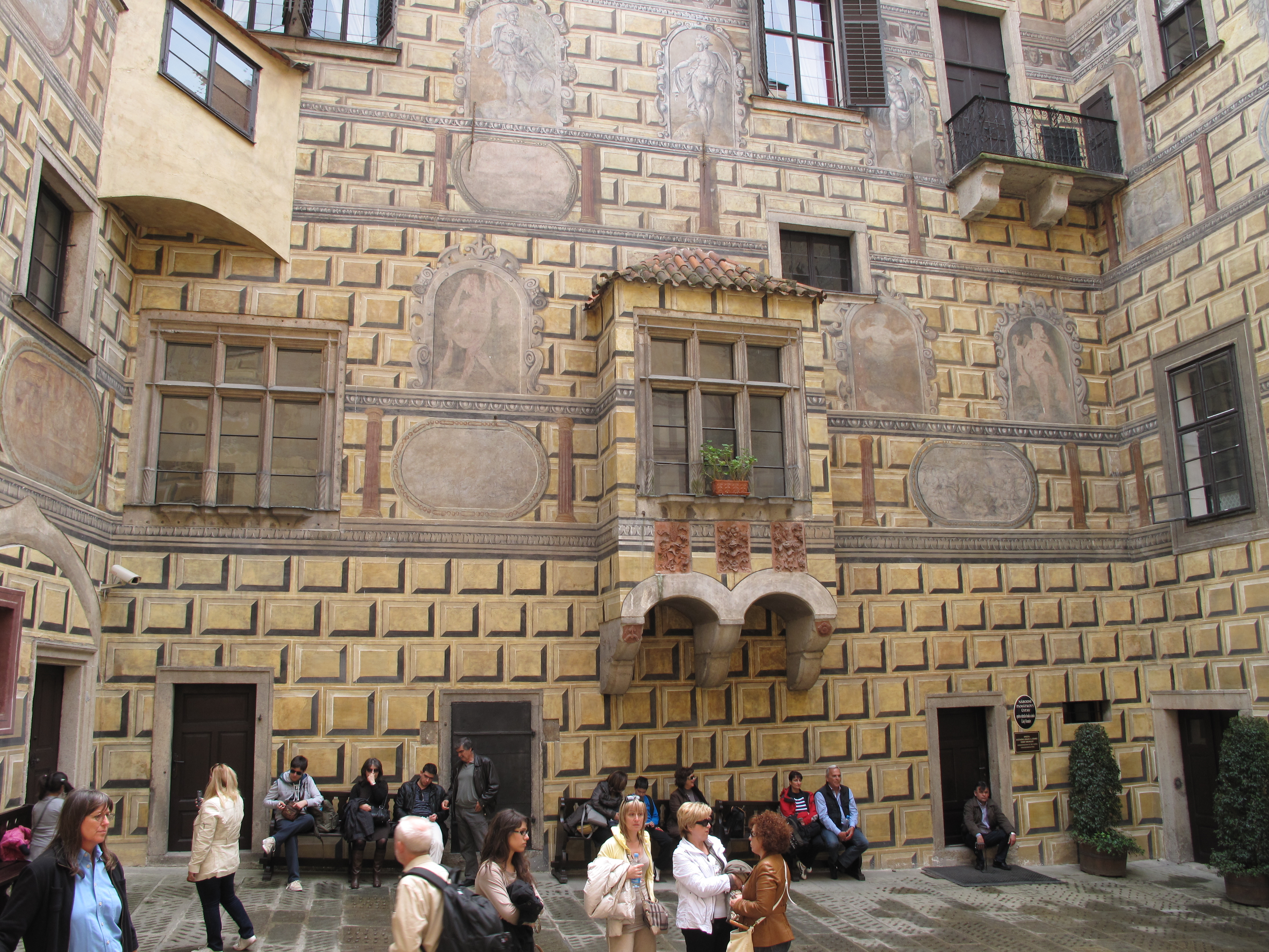 Castle and chateux, Český Krumlov, Czech Republic.